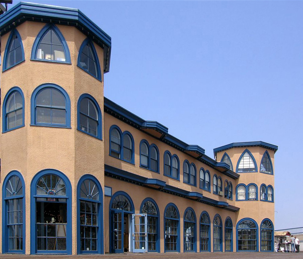 The Santa Monica Looff Hippodrome - the historic Victorian era main building on the Santa Monica Pier.